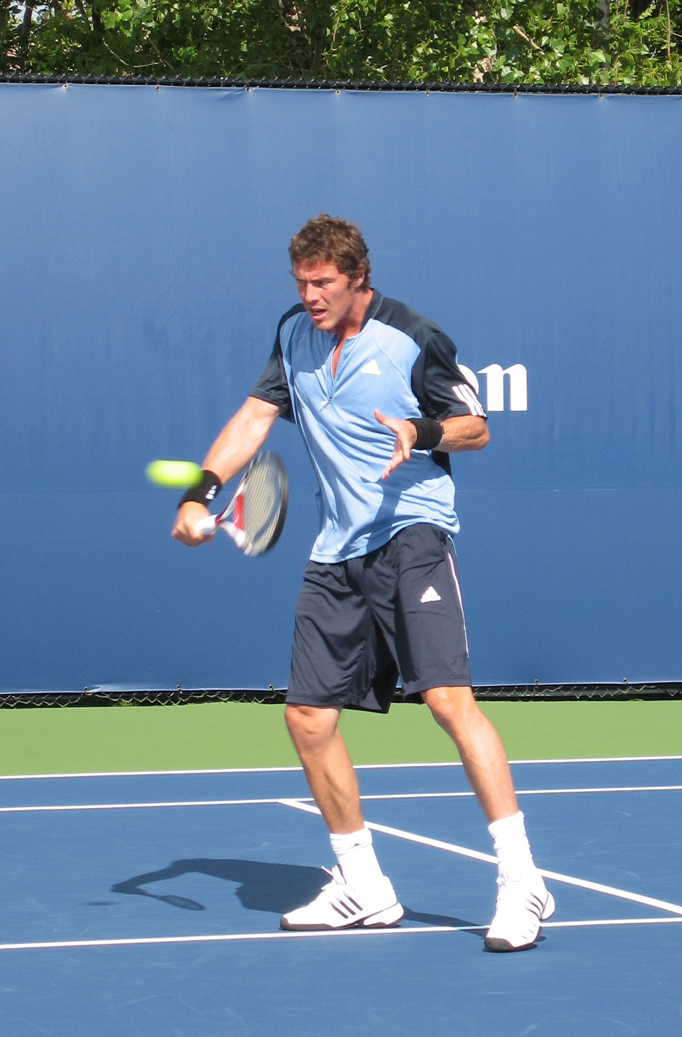 Marat Safin warming up against Sam Querrey at the Canadian Masters 2008 in Toronto.